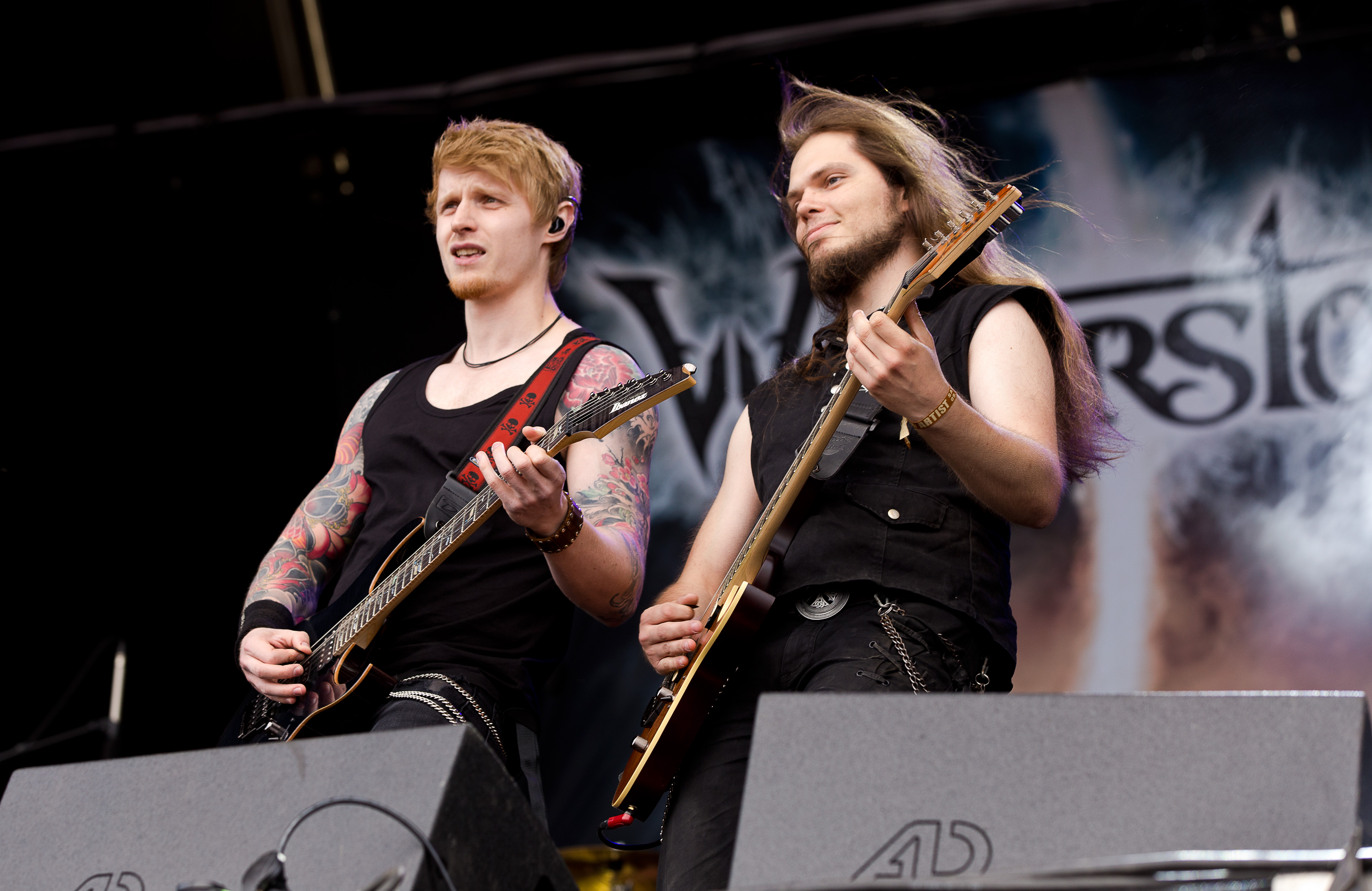 The German power metal band Winterstorm at the Rockharz Open Air 2016 in Ballenstedt/Germany.